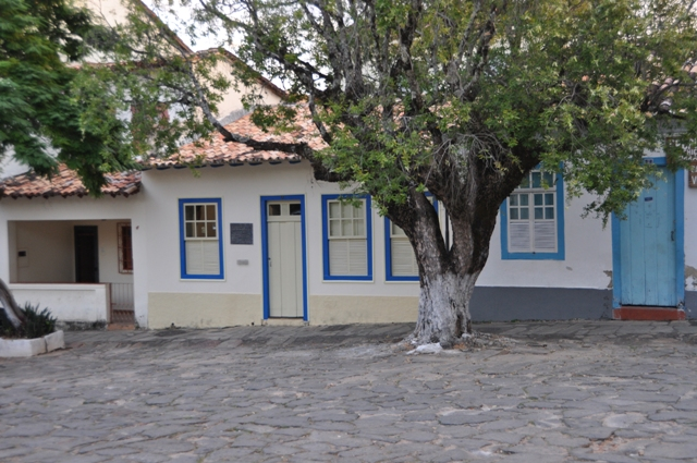 Veiga Valle´s house in the city of Goiás, state of Goiás, Brazil